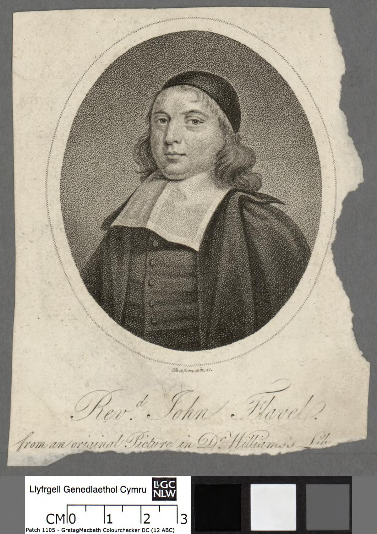 A portrait from the Welsh Portrait Collection at the National Library of Wales. Depicted person: John Flavel – English Presbyterian clergyman